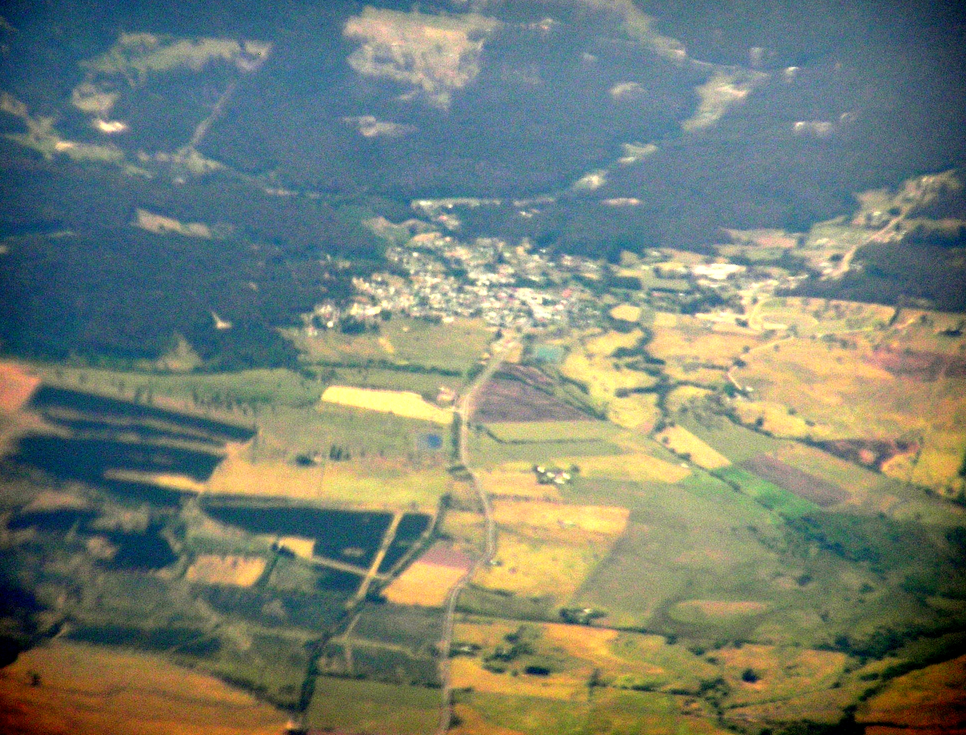 Aerial photo of St Marys Tasmania from west